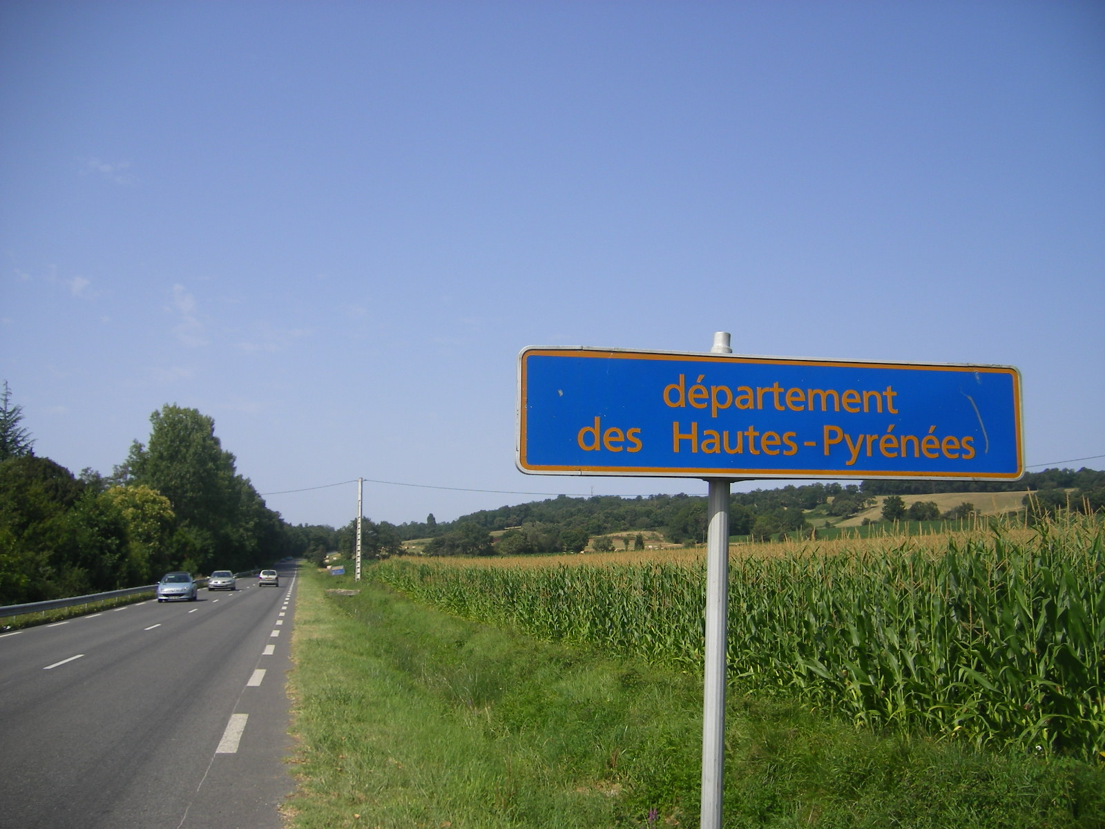 Border sign near Rabastens-en-Bigorre, Hautes-Pyrénées, France.